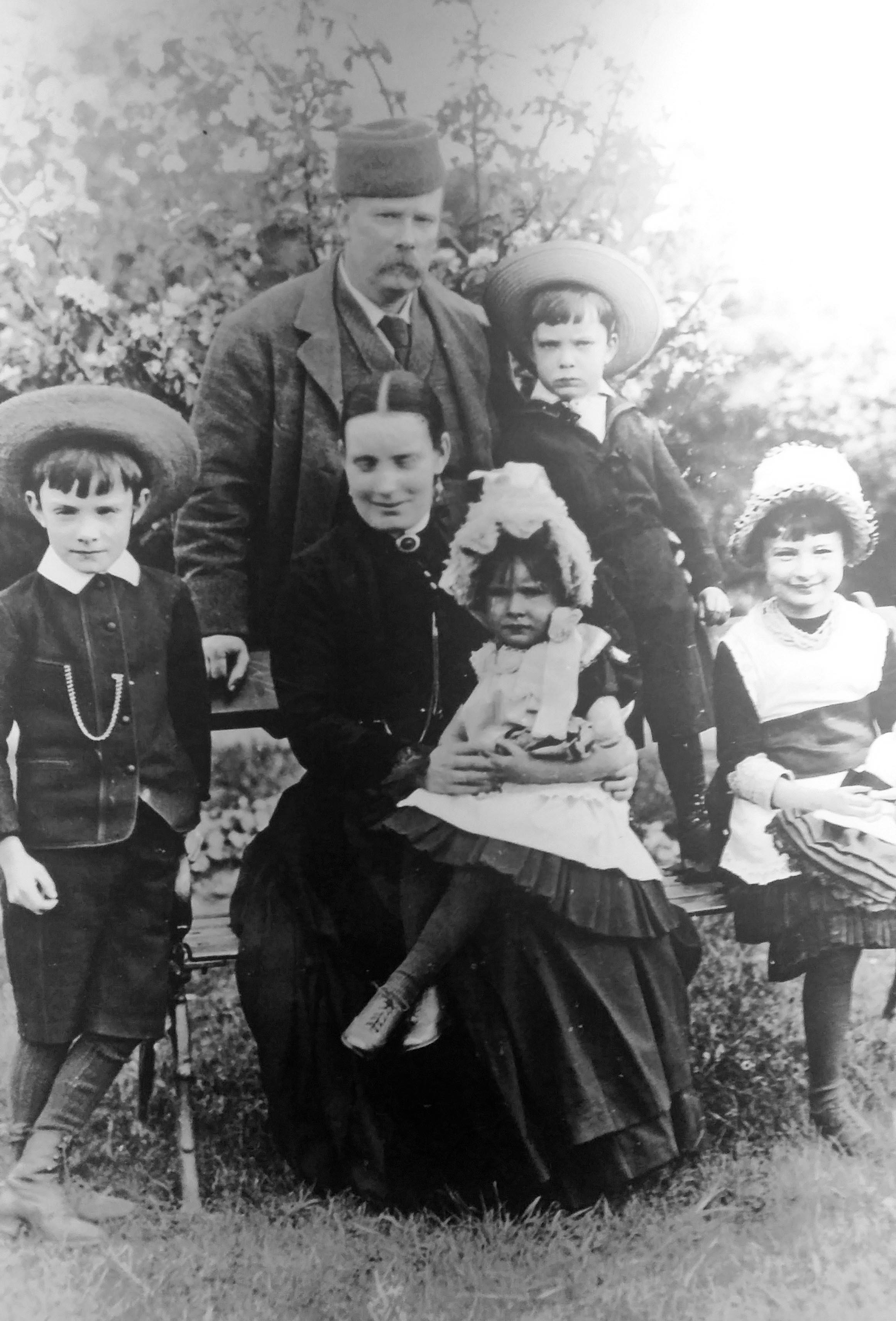 Pearse Family Portrait